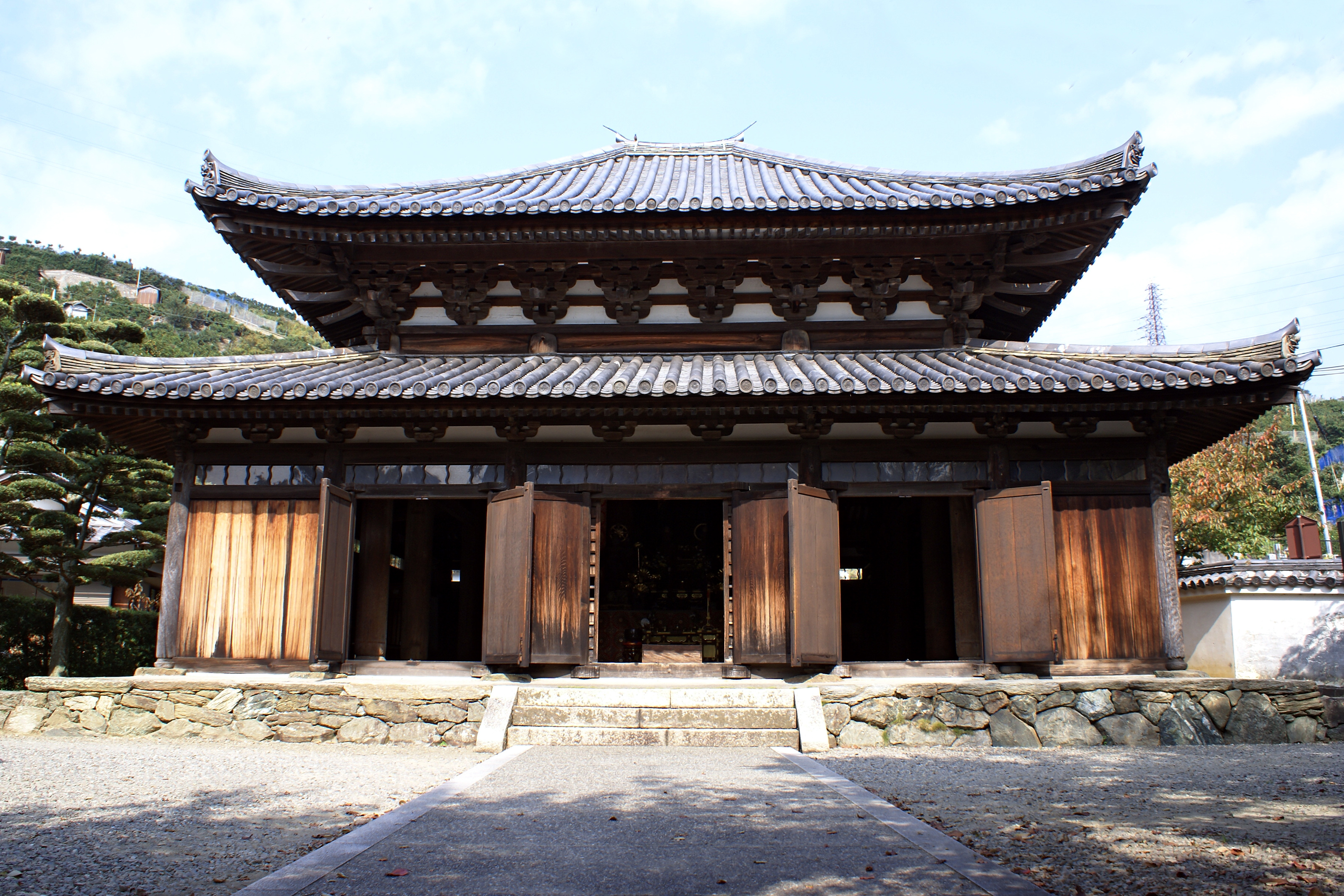 Zenpukuin Shakado (Japan's National Treasure) in Kainan, Wakayama prefecture, Japan It was built in 1327.